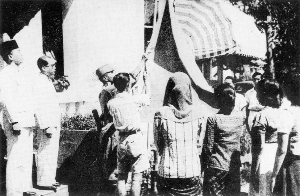 Ceremony of raising the flag of Indonesia moments after the reading of the Indonesian Declaration of Independence. The original flag was sewn by Sukarno's wife Fatmawati and flown every year on 17 August to commemorate the most important moments in Indonesian history. (Since 1968, a duplicate flag was flown to prevent the original from being damaged).